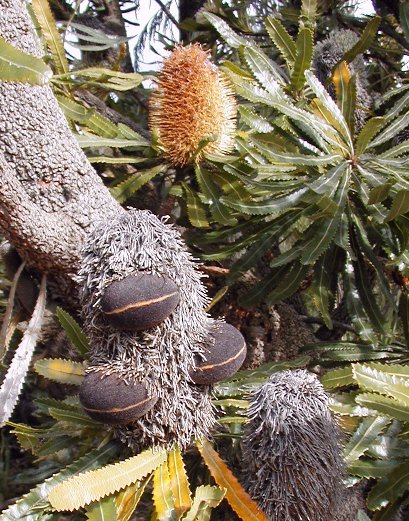 Banksia aemula, showing large follicles, Cranbourne Annexe, RBG Melbourne Oct 03 Photo - Cas Liber